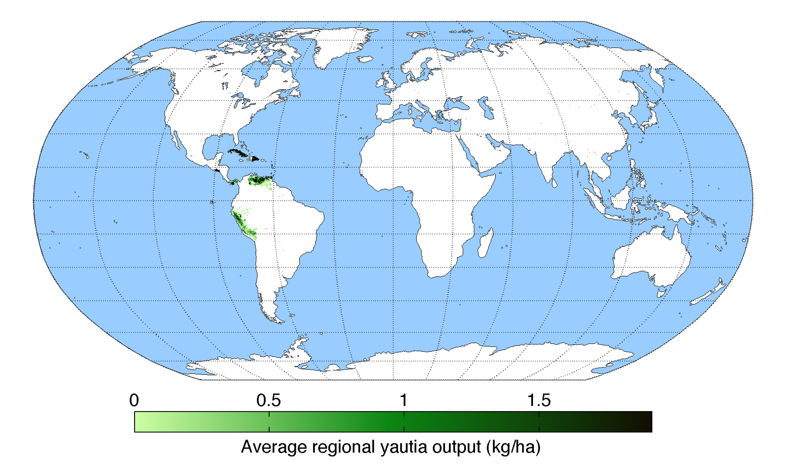 Map of yautia production (average percentage of land used for its production times average yield in each grid cell) across the world compiled by the University of Minnesota Institute on the Environment with data from: Monfreda, C., N. Ramankutty, and J.A. Foley. 2008. Farming the planet: 2. Geographic distribution of crop areas, yields, physiological types, and net primary production in the year 2000. Global Biogeochemical Cycles 22: GB1022